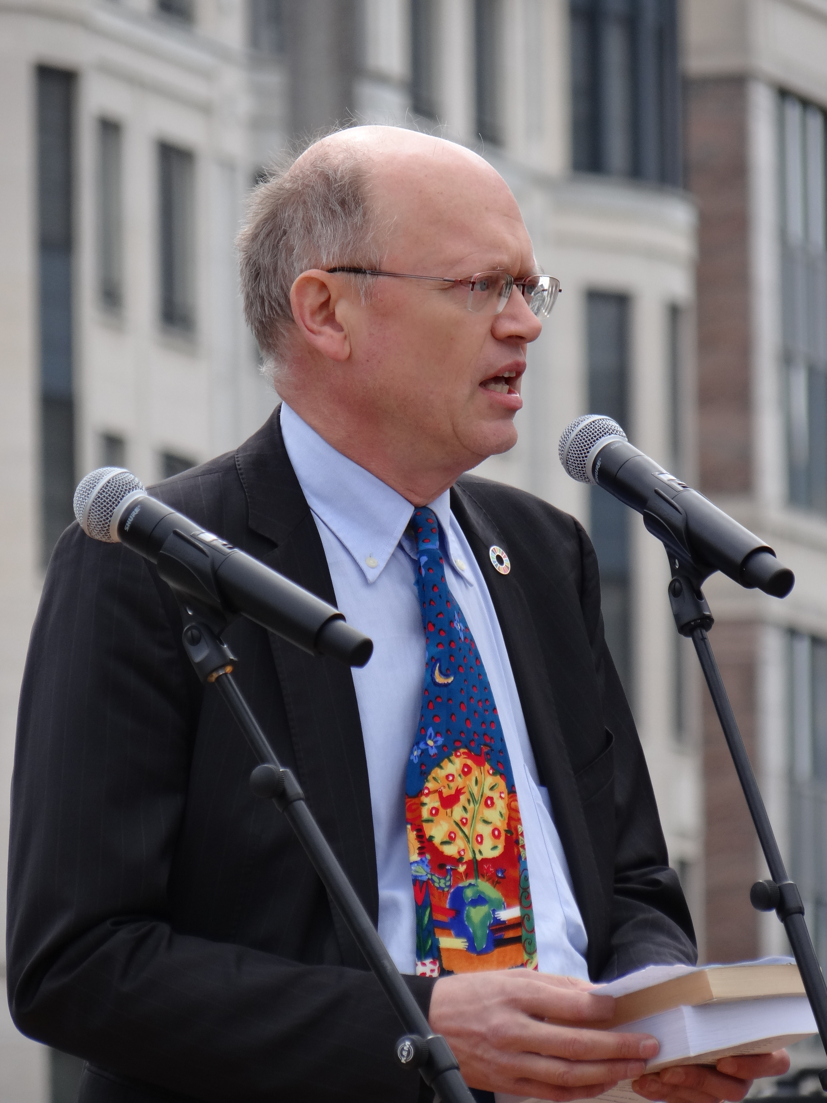 Jean-Pascal van Ypersele de Strihou during a speech at the March for Science in Brussels, 04/22/2017.